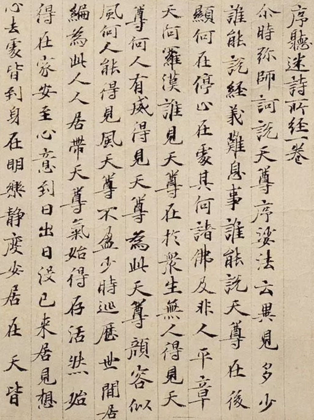 The Sutra of Hearing the Messiah, once known as the Takakusu manuscript; now held in Osaka, Japan, by Kyōu Shooku library, Tonkō-Hikyū Collection, manuscript no. 459.